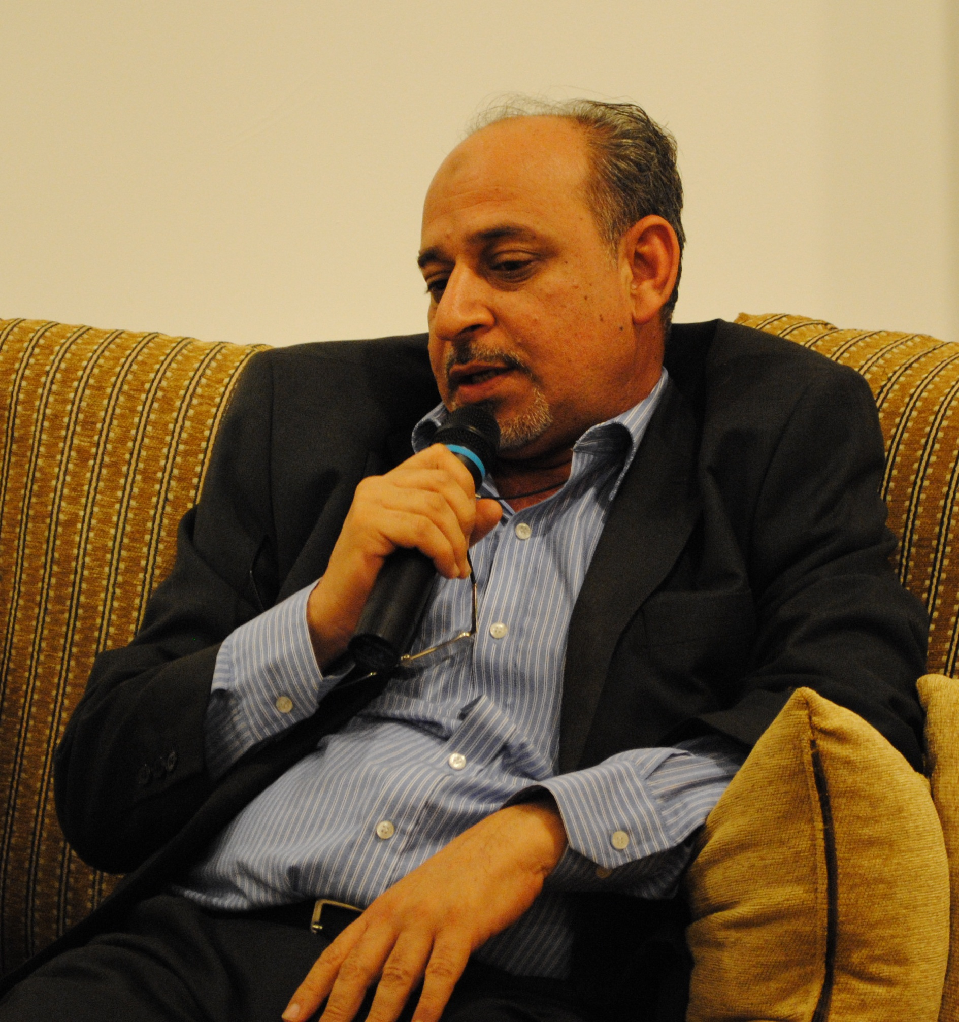 Abduljalil Khalil, resigned MP of Al Wefaq. Image taken during a political seminar at the late Abdul Amir al-Jamri house. Khalil is his daughter's husband.